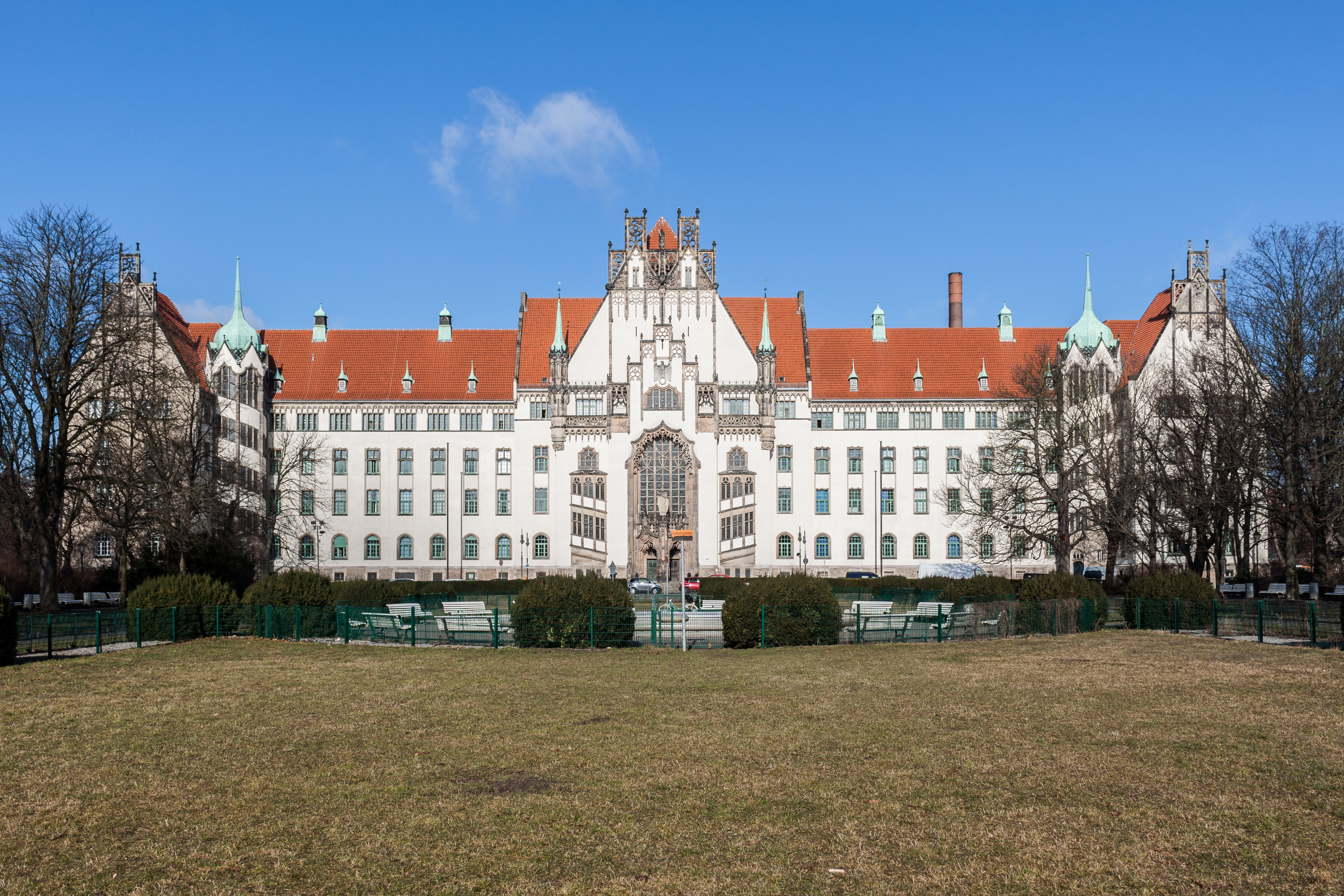 The local court of Wedding (Berlin) was built in 1901-1906, designed by Rudolf Mönnich and Paul Thoemer in neo-gothic style.